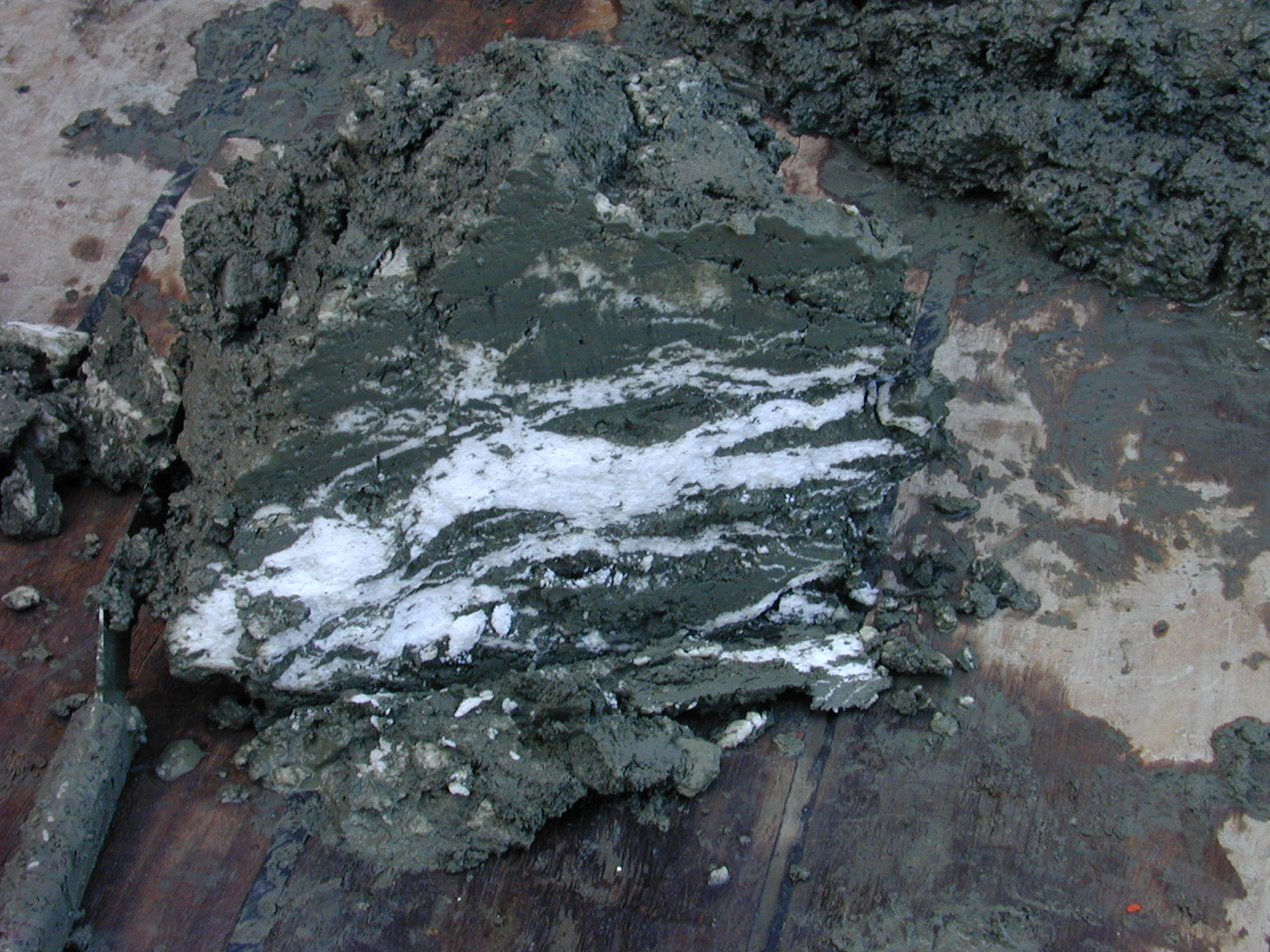 Structure of a gas hydrate (methane clathrate) block embedded in the sediment of hydrate ridge, off Oregon, USA. The gas hydrates have been found during a research cruise with the German research ship FS SONNE in the subduction zone off Oregon in a depth of about 1200 meter in the upper meter of the sediment. The shown gas hydrate (white) has been deposited in thin layers into the sediment